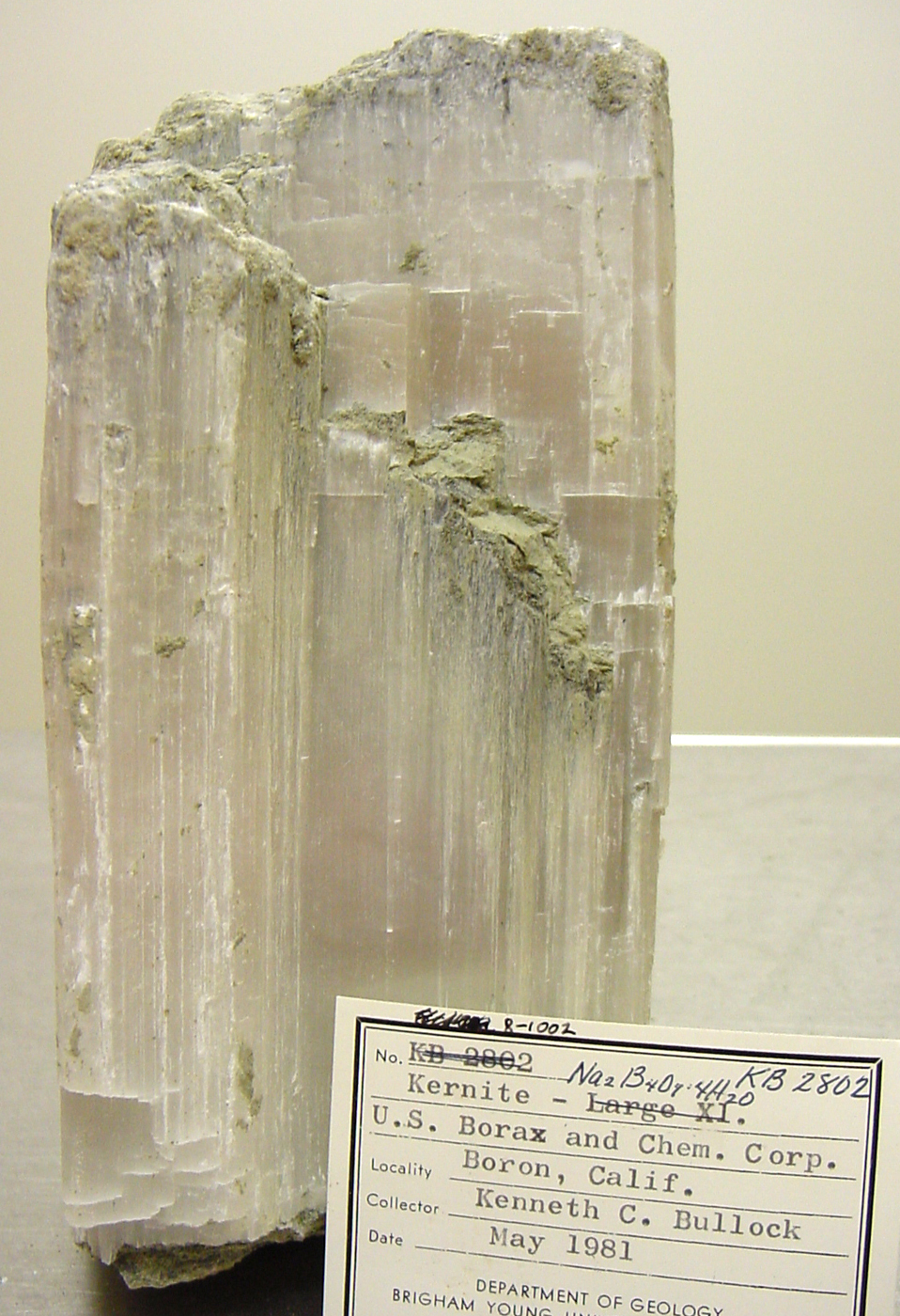 Kernite Locality: U.S. Borax and Chemical Corporation, Boron, California Original description: Kernite. Collected by Kenneth C. Bullock, May, 1981, from U.S. Borax and Chemical Corporation, Boron, California. Mineral collection of Brigham Young University Department of Geology, Provo, Utah. Photograph by Andrew Silver. BYU index 8-1002b, Na2B4O7 x 4H2O.